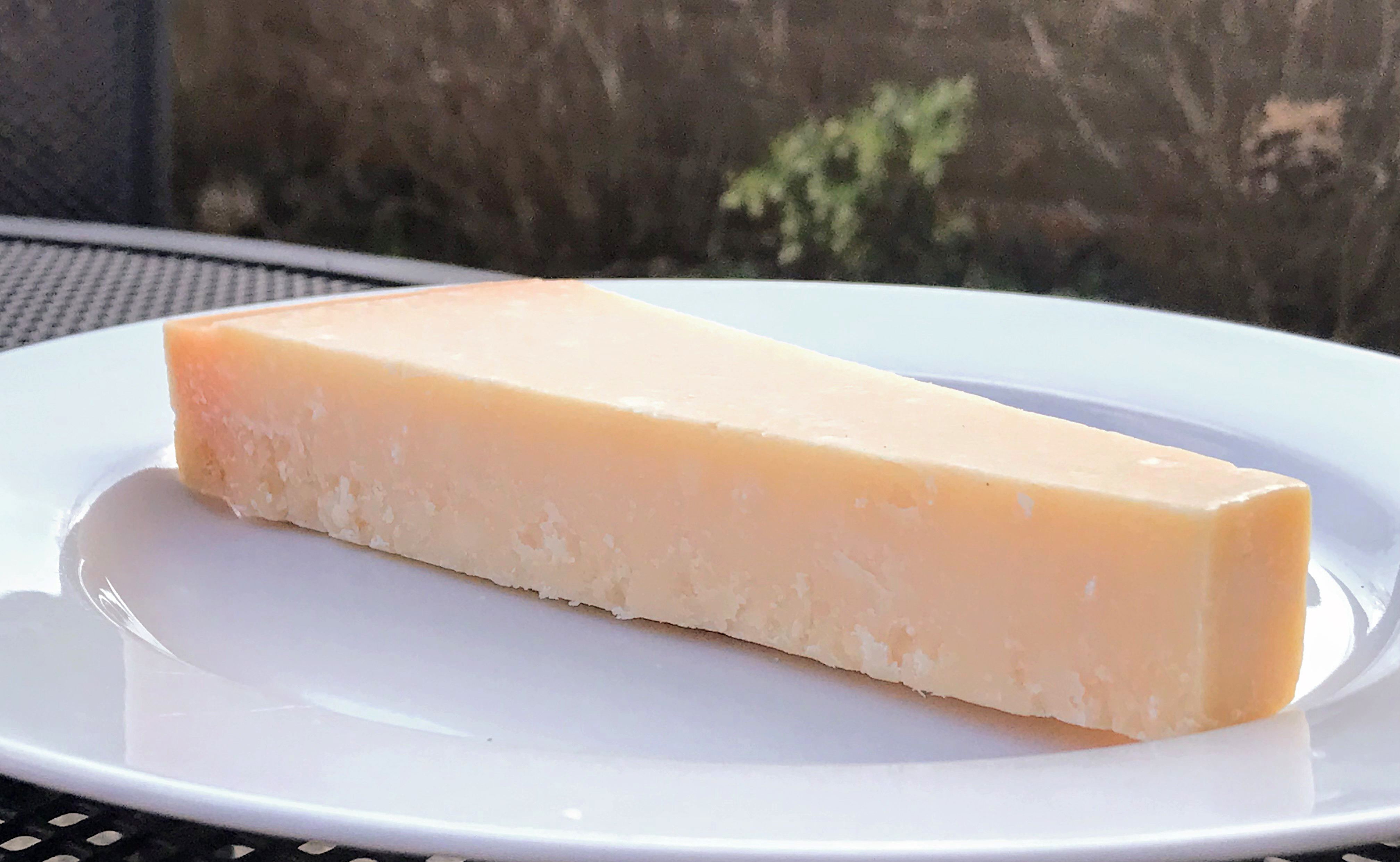 Parmesan Cheese Parmigiano-Reggiano